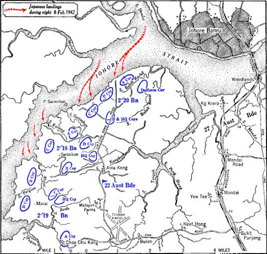 "Dispositions, 22nd Brigade, 10 p.m. 8th February" – the positions of Australian forces around Sarimbun, Singapore, 8 February 1942. The arrows indicate attacks by Japanese forces.